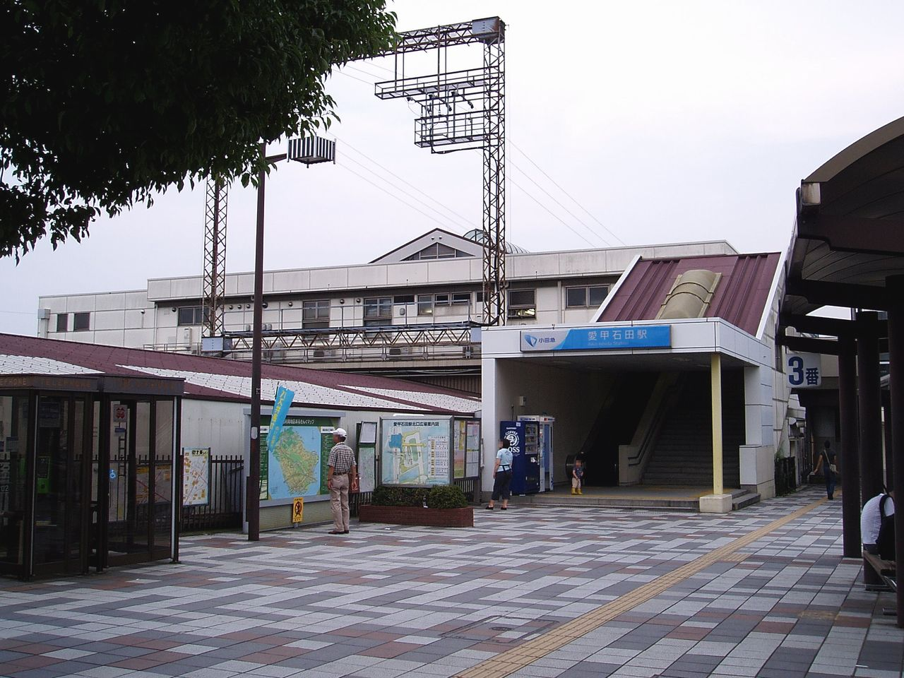 North entrance of Aiko-ishida Sta.